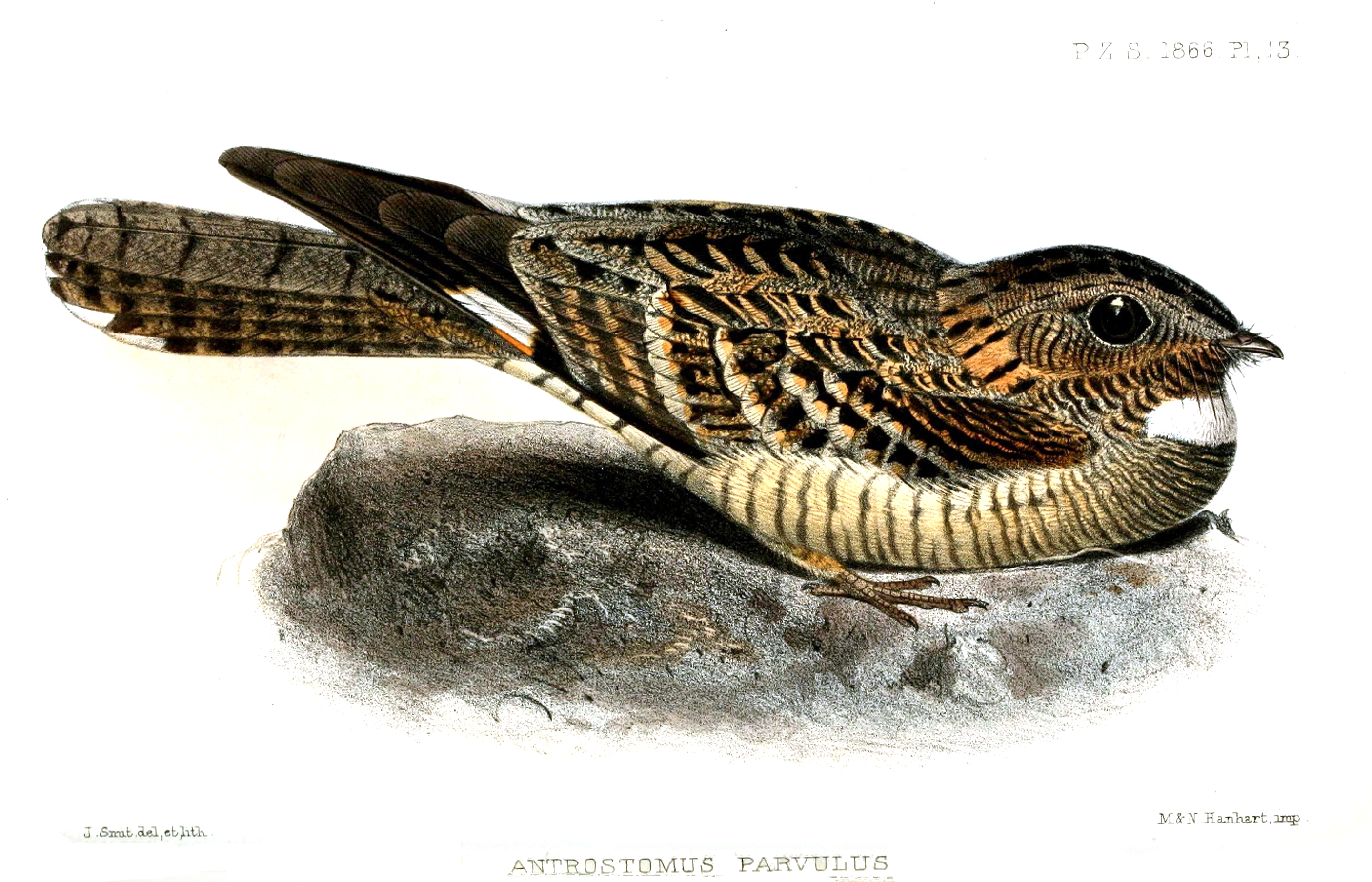 Little Nightjar, adult male